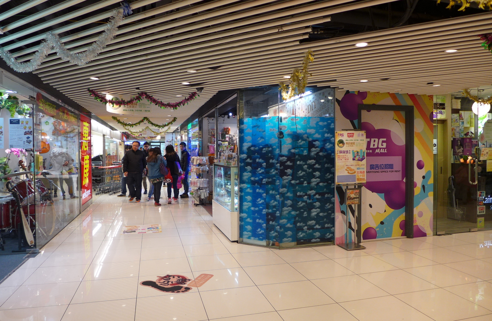 TBG Mall GF shops